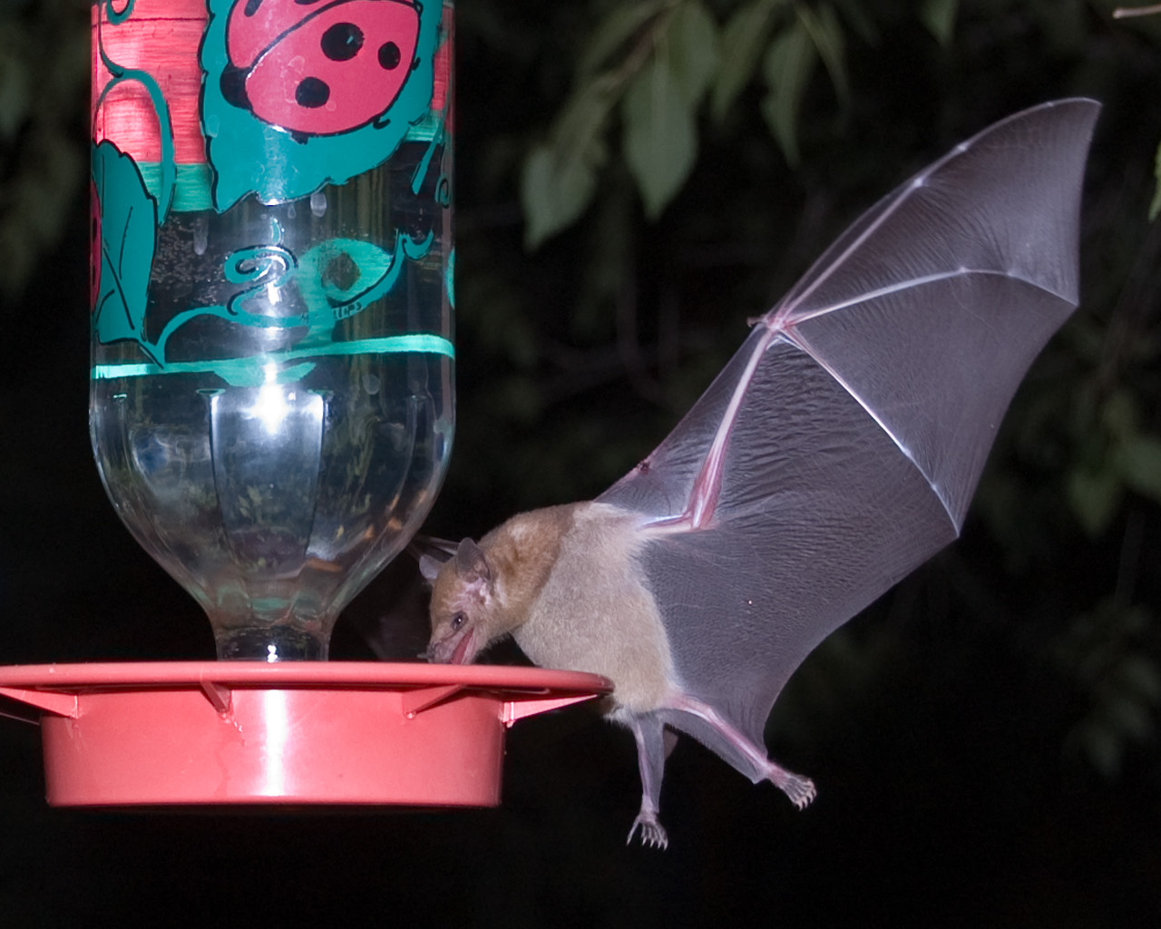 The highlight of staying at Sunglow Ranch last weekend was seeing the bats come to the hummingbird feeders.These bats are migratory, spending summers in southern Arizona and winters in Mexico. So we see them in their spring and fall migrations. These bats are important pollinators of several cacti species.